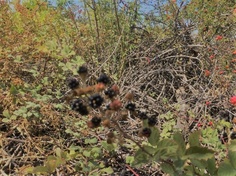 Raspberry in Skopje region